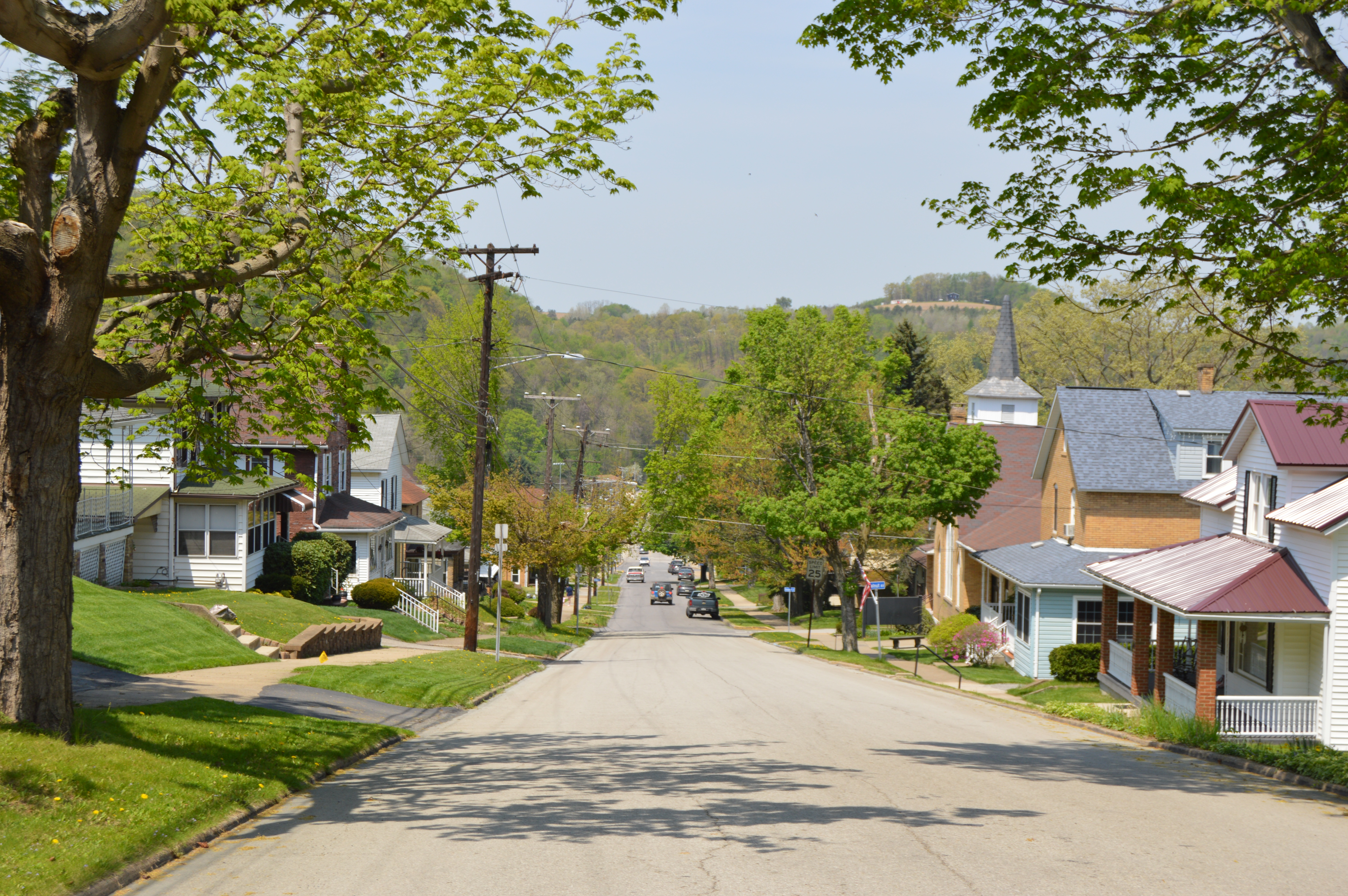 Looking downhill (northwest) on Sixth Street from the Walcott Street intersection in Clymer, Pennsylvania, United States. The street sign in the distance marks the Hancock Street intersection, with Clymer Presbyterian Church on one of the corners.